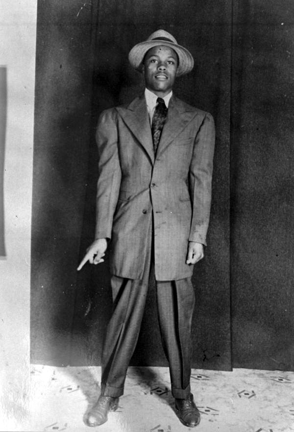 Local call number: N047002 Title: Rayfield McGhee in a zoot suit: Tallahassee, Florida Date: ca. 1942 Physical descrip: 1 photonegative; b&w; 5 x 4 in. Series Title: General collection General note: One of the eleven children of Samantha and Ellis McGhee. He graduated from FAMU and taught in the Alachua County Public schools. Rayfield Sr. received his Doctorate in Education (D.Ed) from the University of Florida in 1973. He married and had two sons, Rayfield Jr. and Vincent who both later became attorneys. Repository: State Library and Archives of Florida, 500 S. Bronough St., Tallahassee, FL 32399-0250 USA. Contact: 850.245.6700. Persistent URL